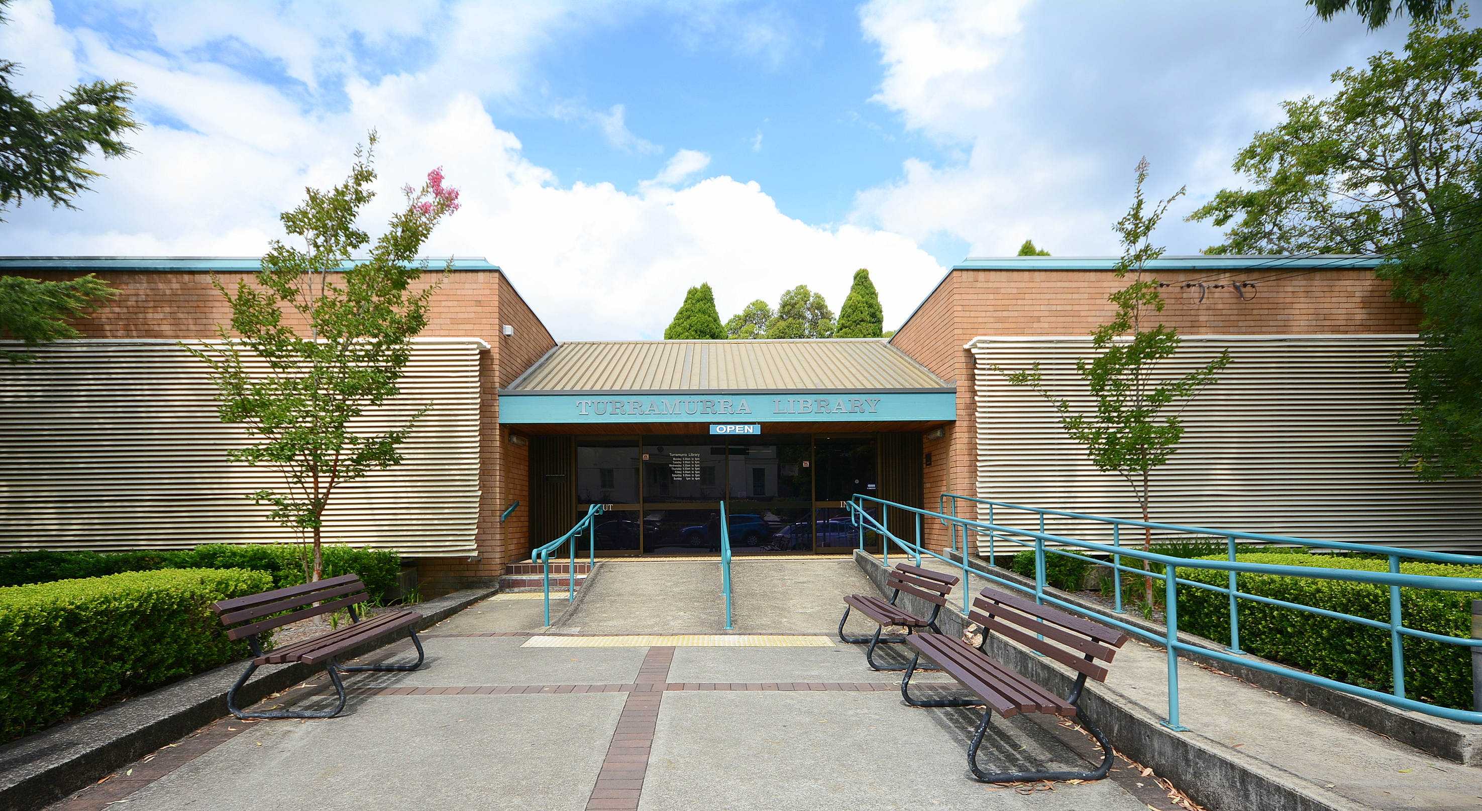 Public library, Ray Street, Turramurra, Sydney